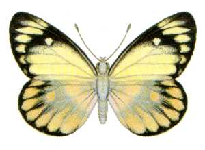 Delias argenthona argenthona